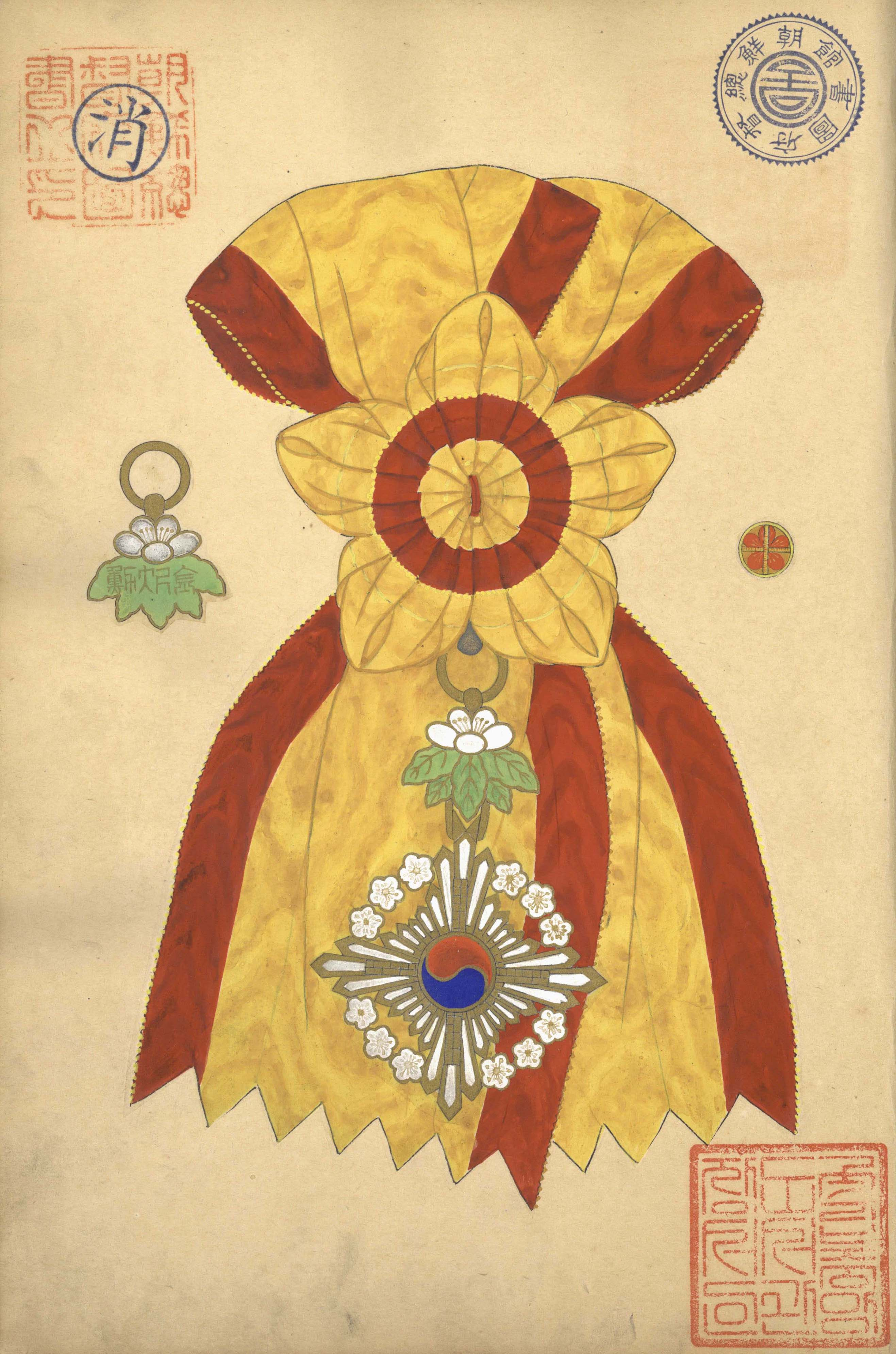 Order of the Gold cheok, Korean Empire